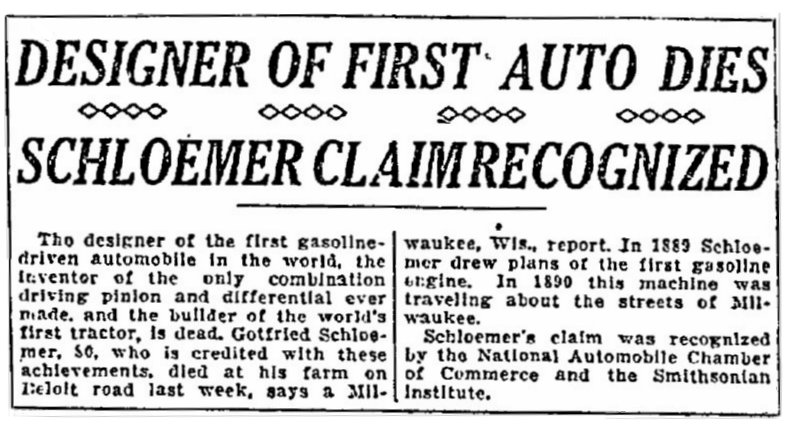 Duluth News Tribune Schloemer obituary